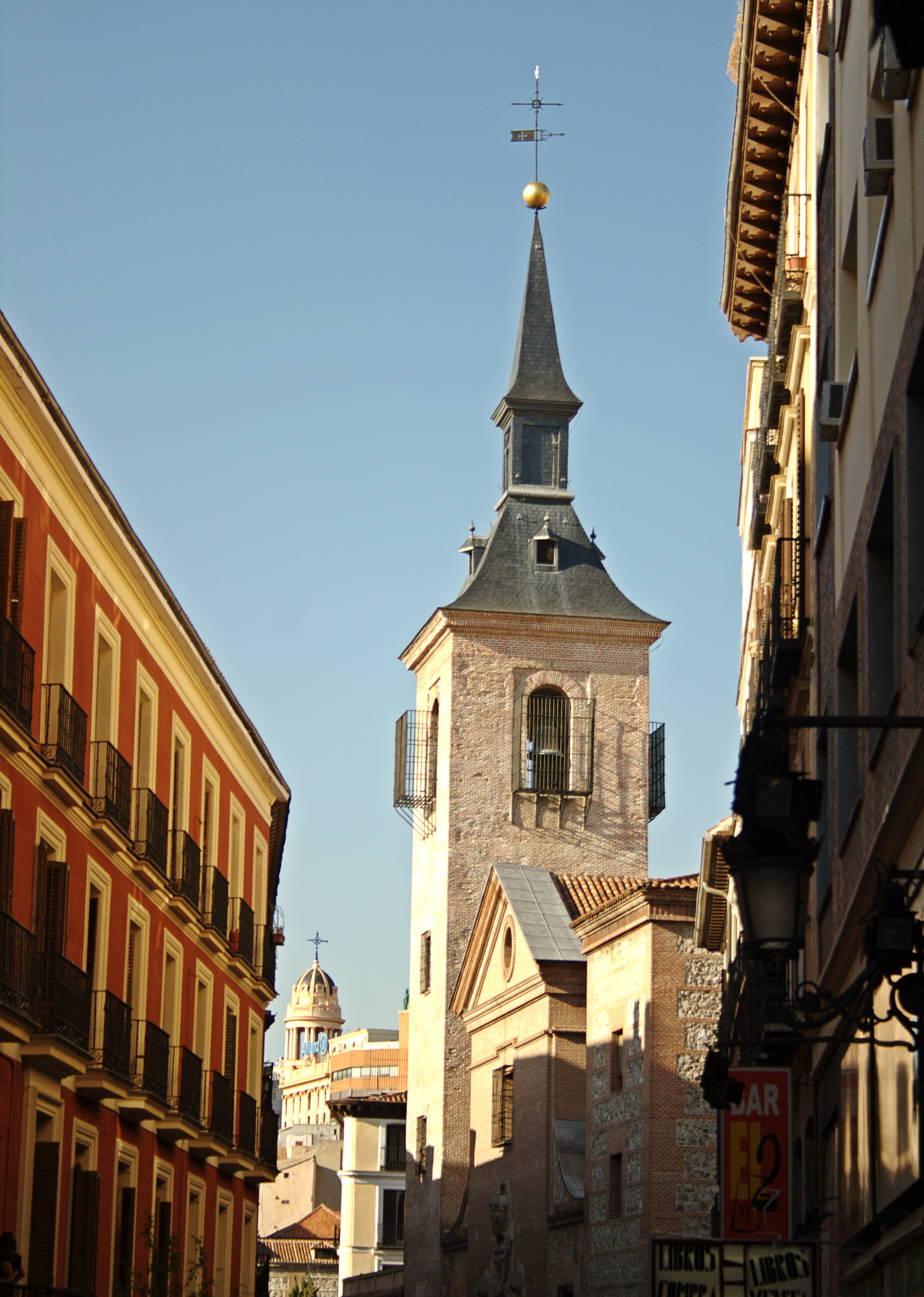 Bellfry of St. Genesius Church in Madrid (Spain).